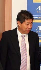 Zhang Jilong, AFC Head